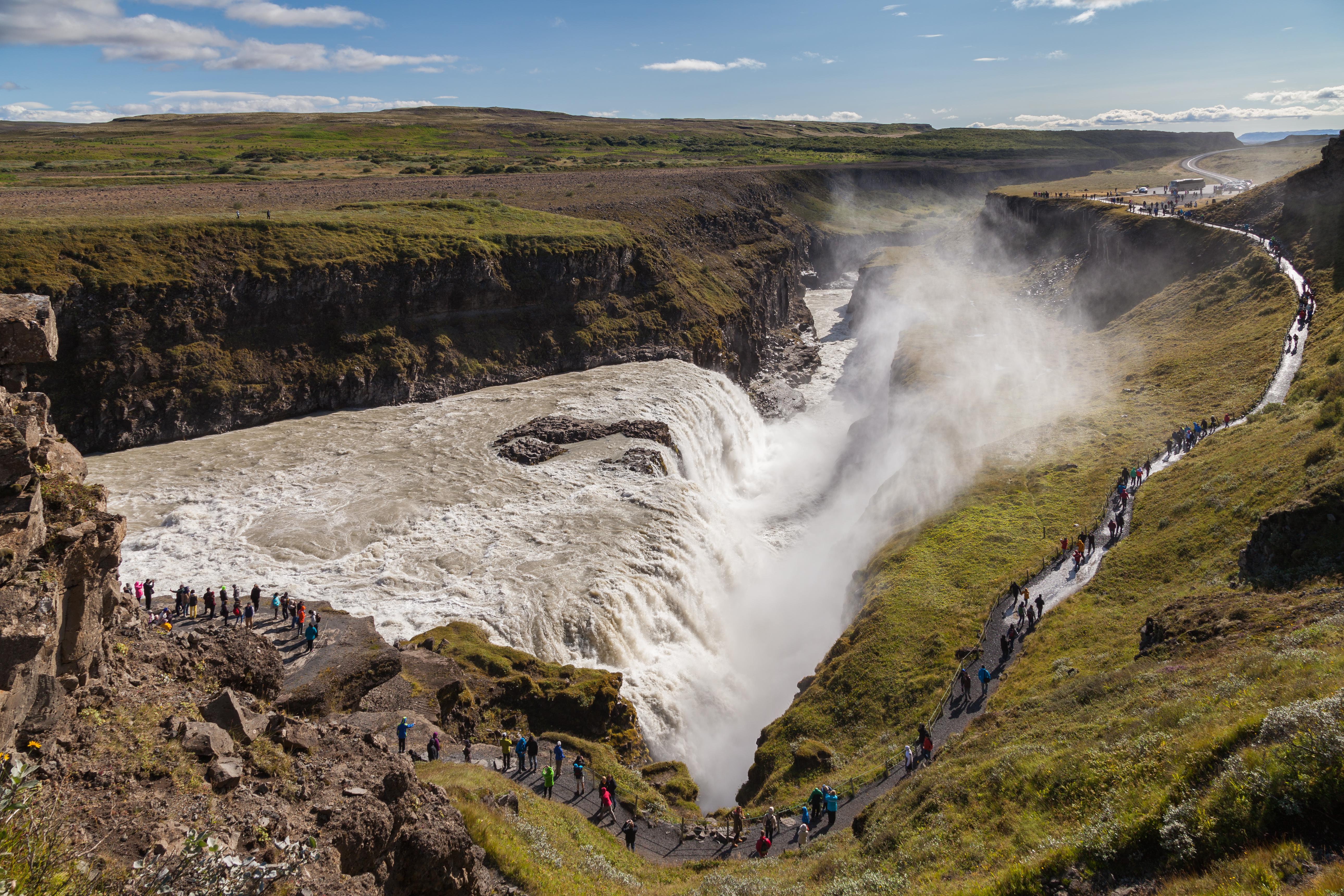 Rainbow over Gullfoss ("Golden Falls" in Icelandic), a waterfall located in the canyon of the Hvítá river and one of the main attractions of the Golden Circle in southwest of Iceland. The fall step on the left is 11 m high and the one on the right 20 m high. The amount of water flowing is in summer, when the picture was taken, 140 m3/s.